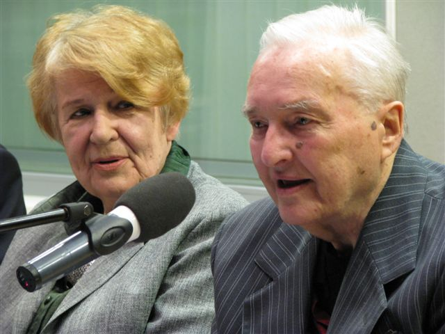 Ludwik Jerzy Kern (1920-2010), Polish writer and translator and Marta Stebnicka (b. 1925), Polish actress